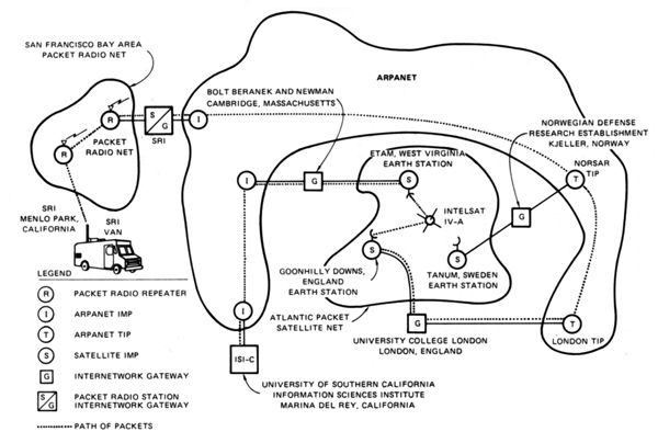 SRI’s role in the first internetworked connection (diagram)